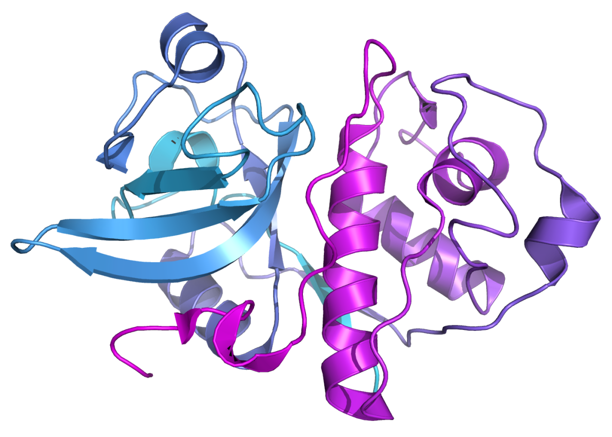 Cartoon diagram of actinidain, a cysteine protease from Actinidia chinensis, in complex with an inhibitor (not shown).Created using PyMOL ( and GIMP.